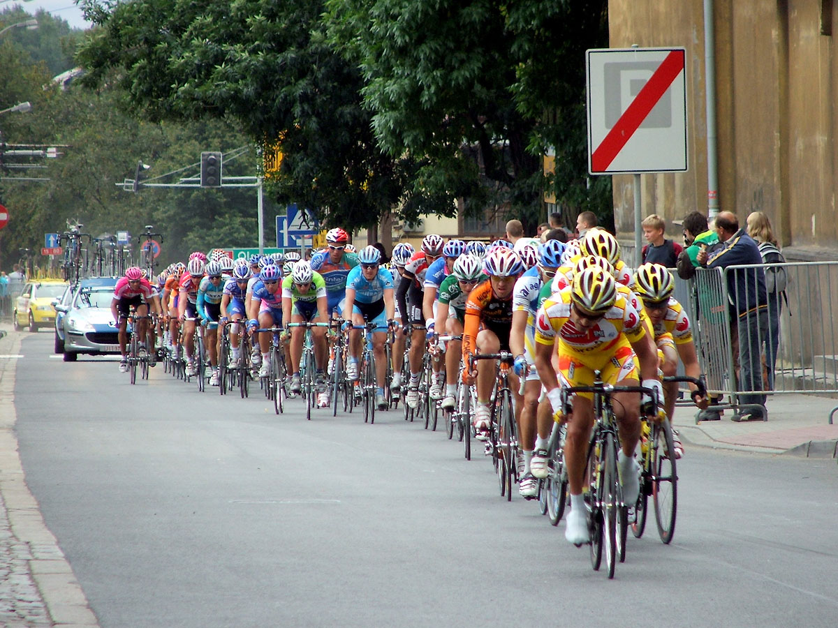 Peloton Tour de Pologne 2006 na ulicach Torunia. Feld on Toruń streets, Tour de Pologne 2006.